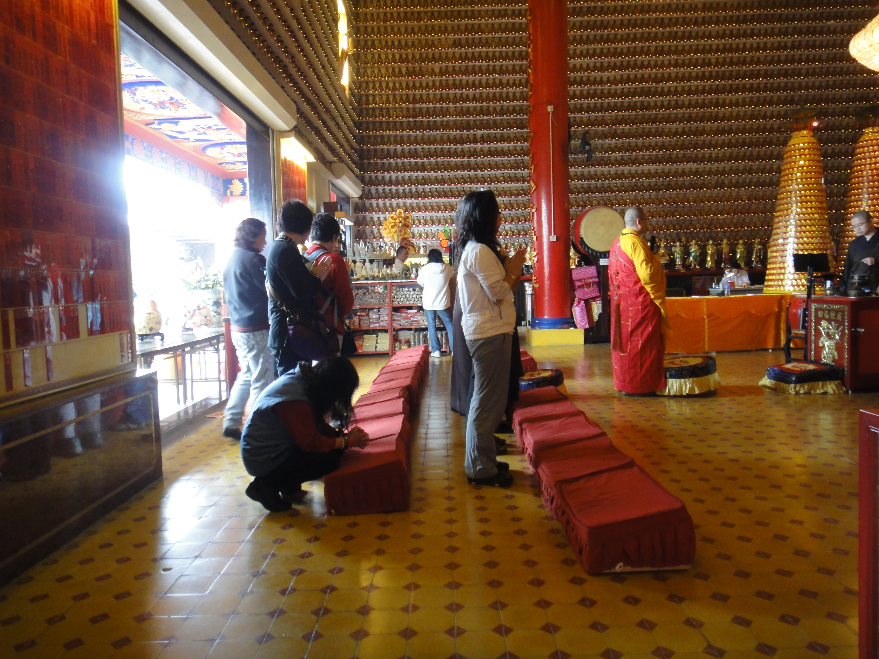 worshiping System in Buddhist Temple